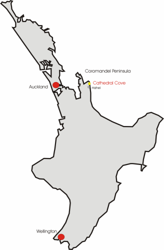 Map of North Island New Zealand, Cathedral Cove